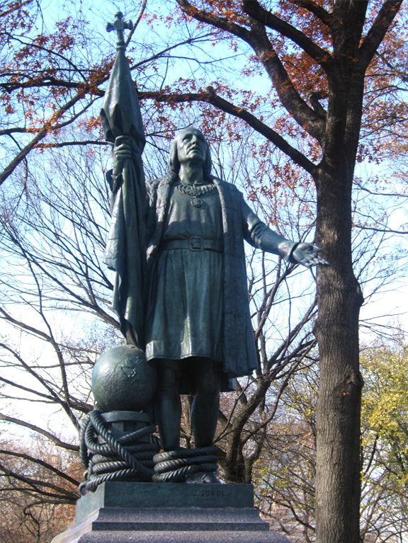 Bronze sculpture of Christopher Columbus at Central Park New York by Jerónimo Suñol, 1894.